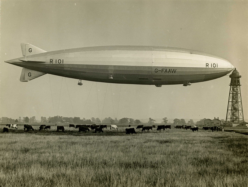 Description: British R101 airship at mooring tower. The vessel was 237 metres long. Date: c.1929 Our Catalogue Reference: AIR 5/919 This image is from the collections of The National Archives. Feel free to share it within the spirit of the Commons. For high quality reproductions of any item from our collection please contact our image library .